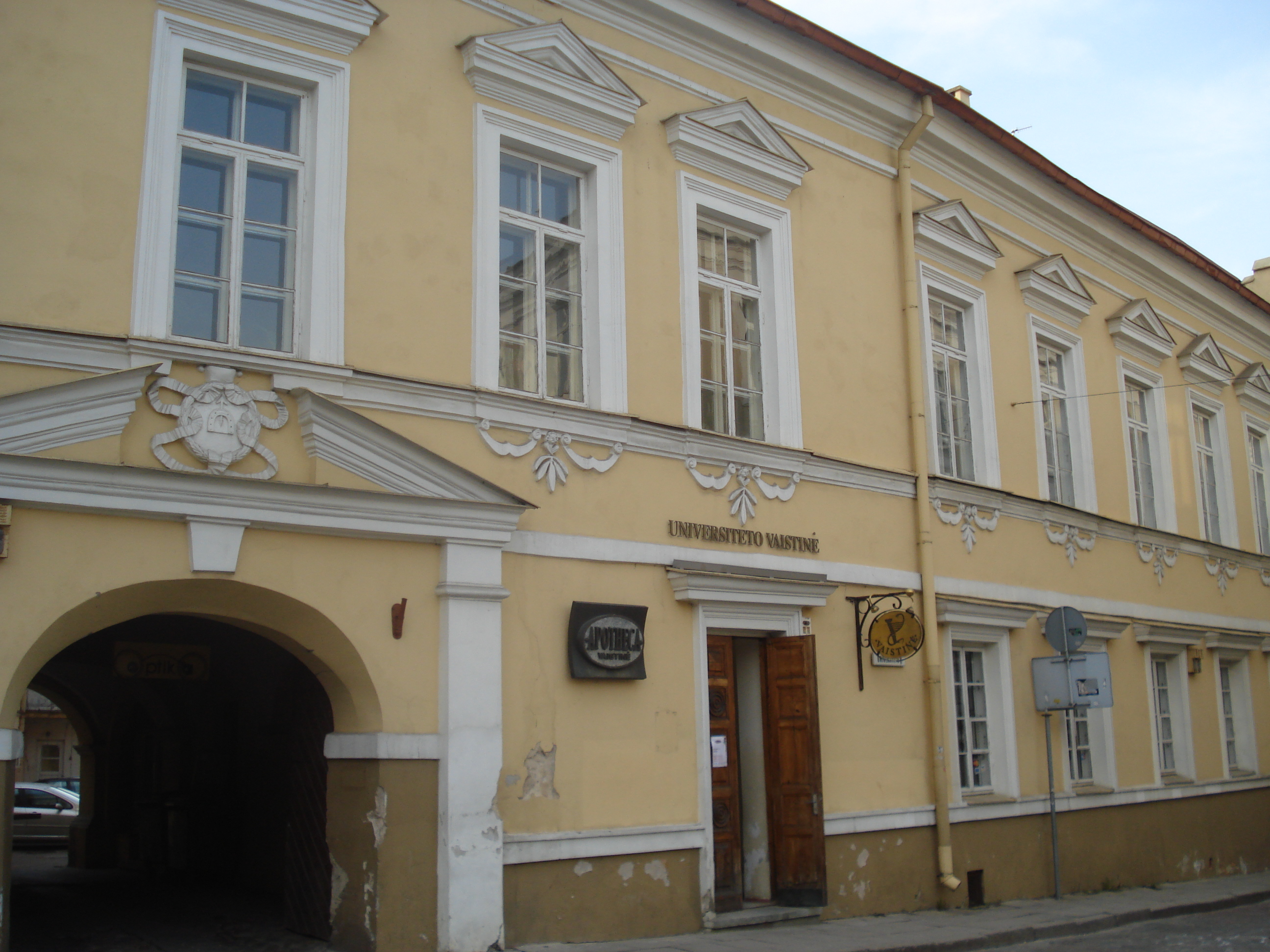 Brzostowski Palace in Vilnius, Universiteto g. 2 / Dominikonų 18. Probabely reconstruction by Marcin Knackfus